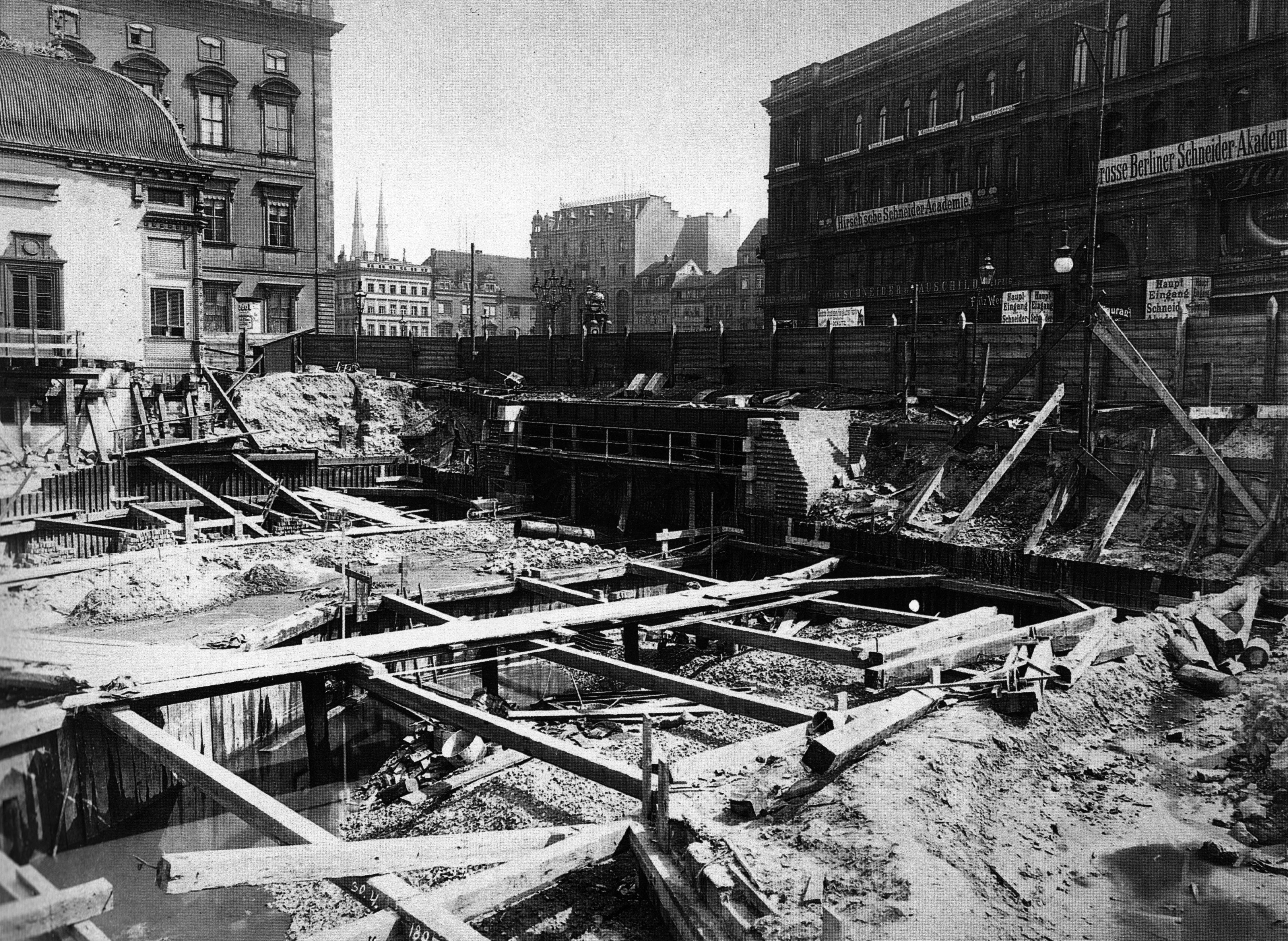 The construction of the Emperor William National Memorial on the Schloßfreiheit (now Schloßplatz in front of the Berlin City Palace.